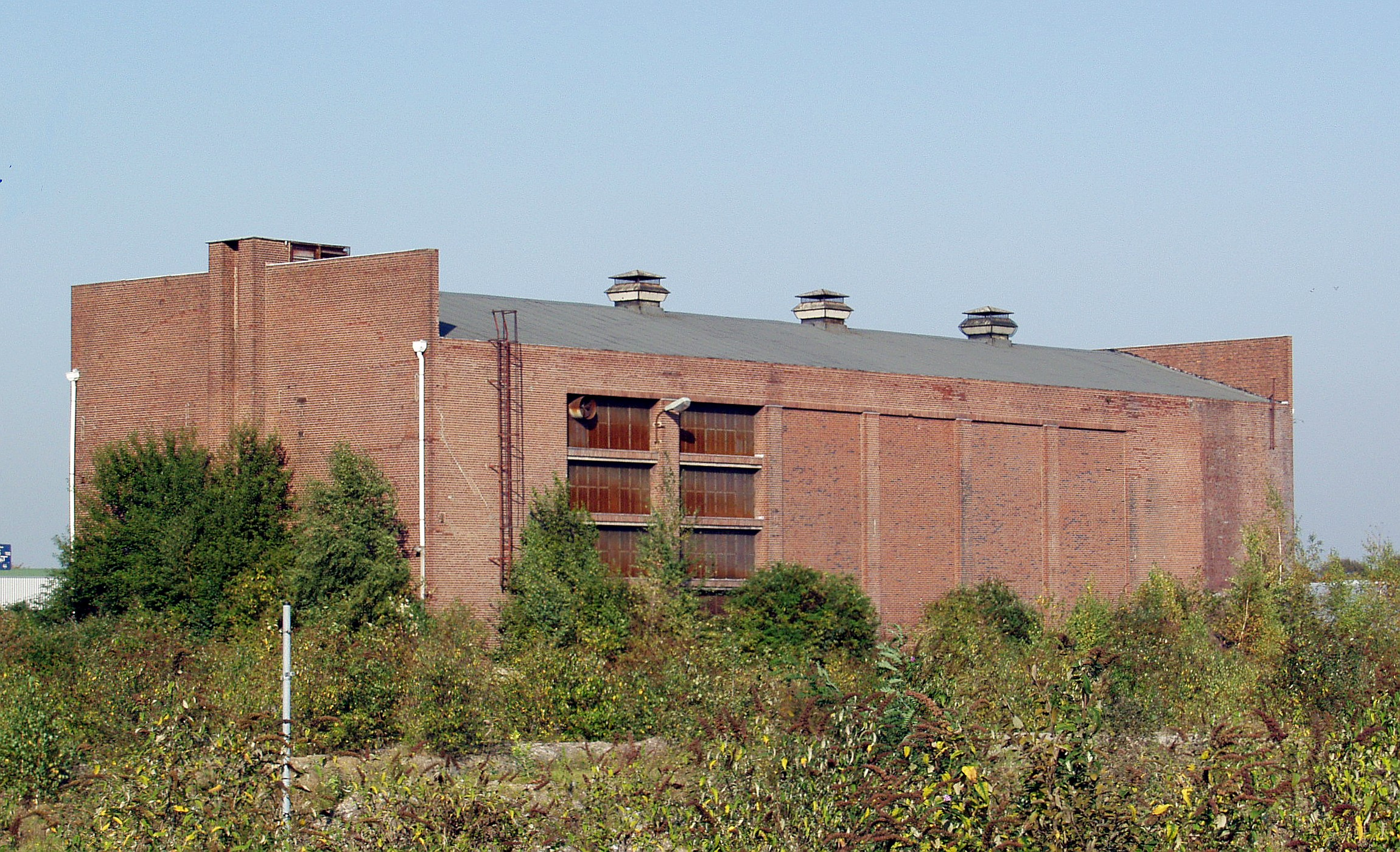 Machine house of the coal mine "Pattberg" at Moers, Germany